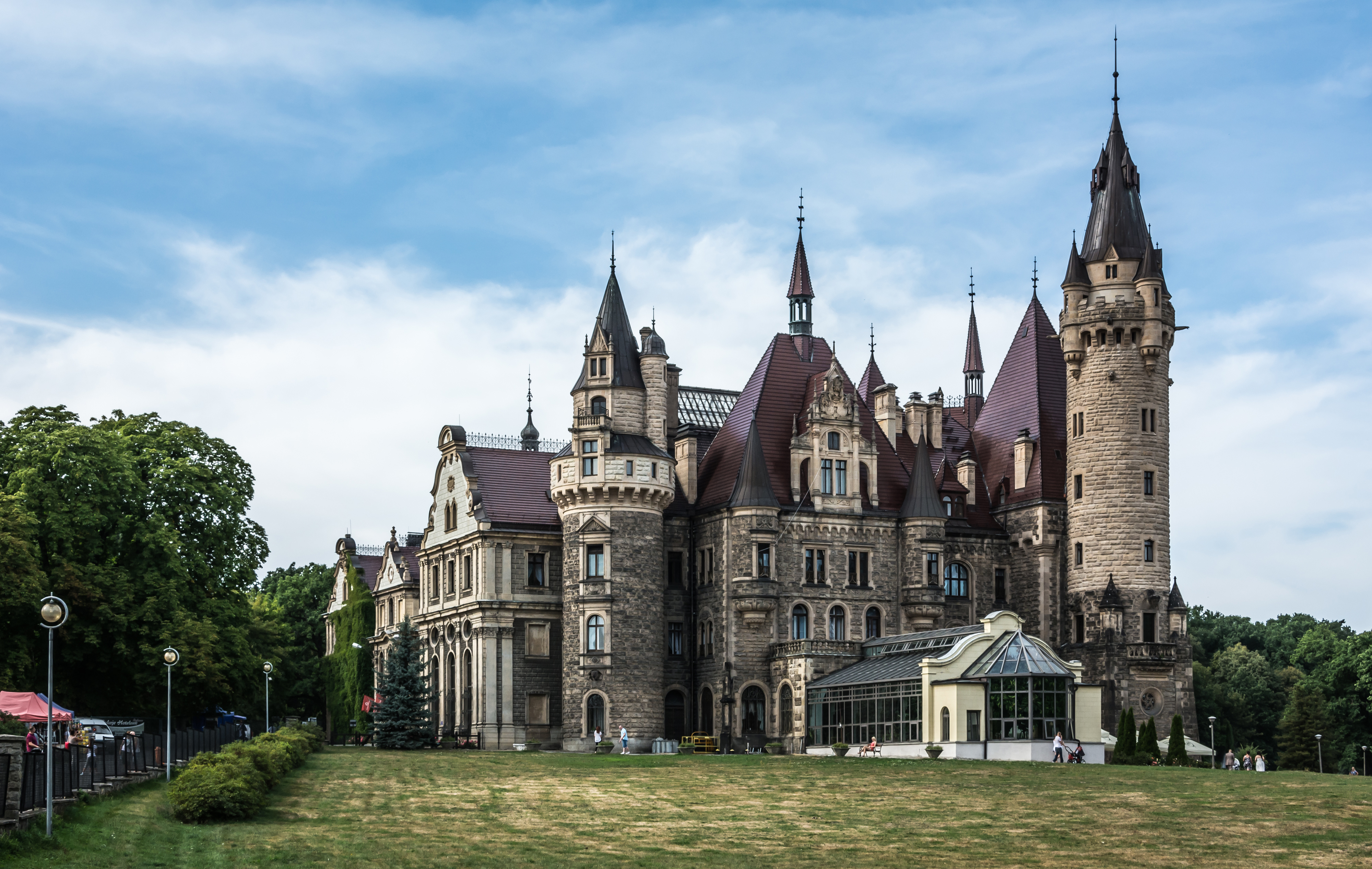 The east wing of the castle